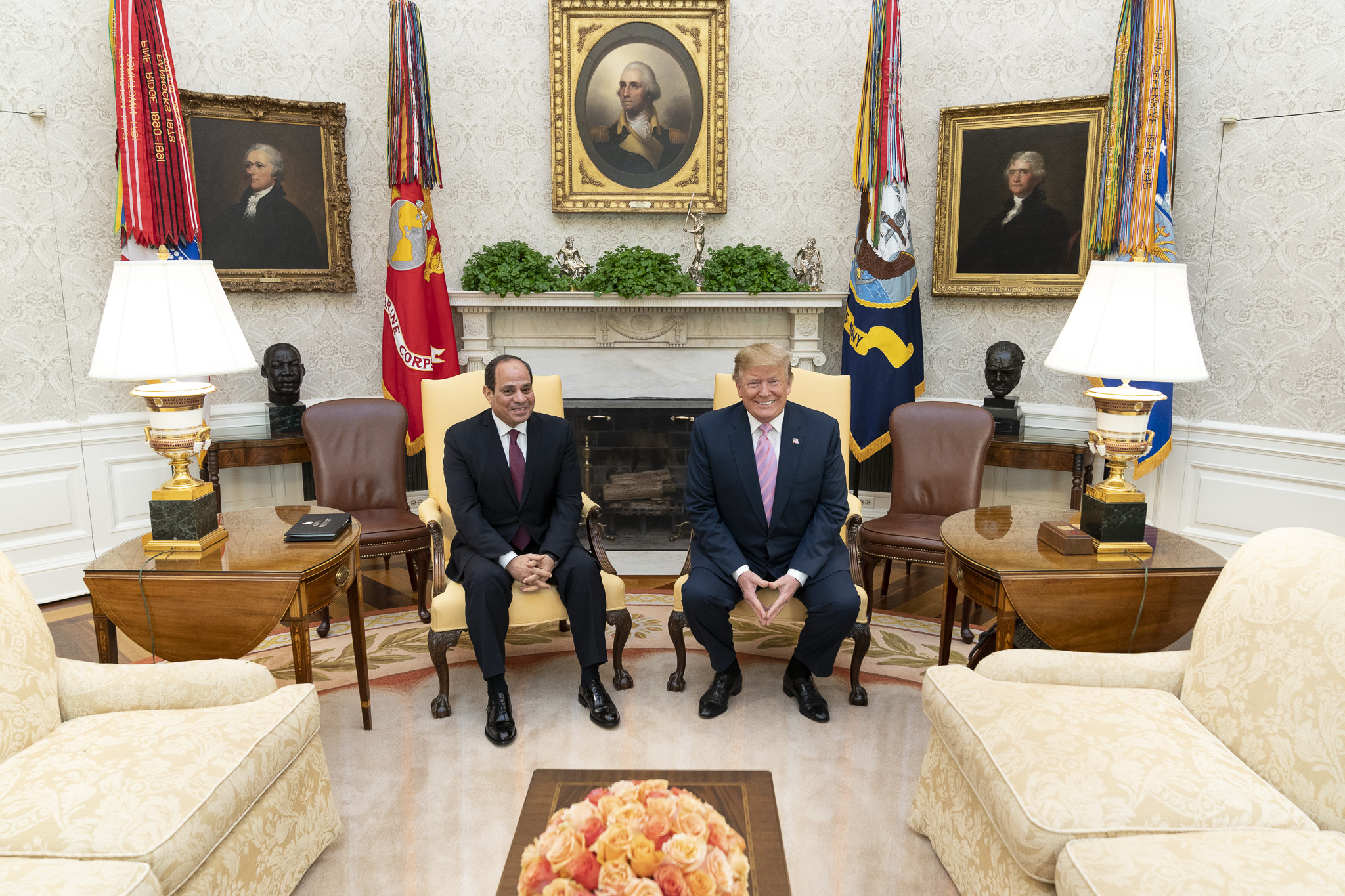 President Donald J. Trump meets with President Abdel Fattah El-Sisi of the Arab Republic of Egypt Tuesday, April 9, 2019, in the Oval Office of the White House. (Official White House Photo by Shealah Craighead)